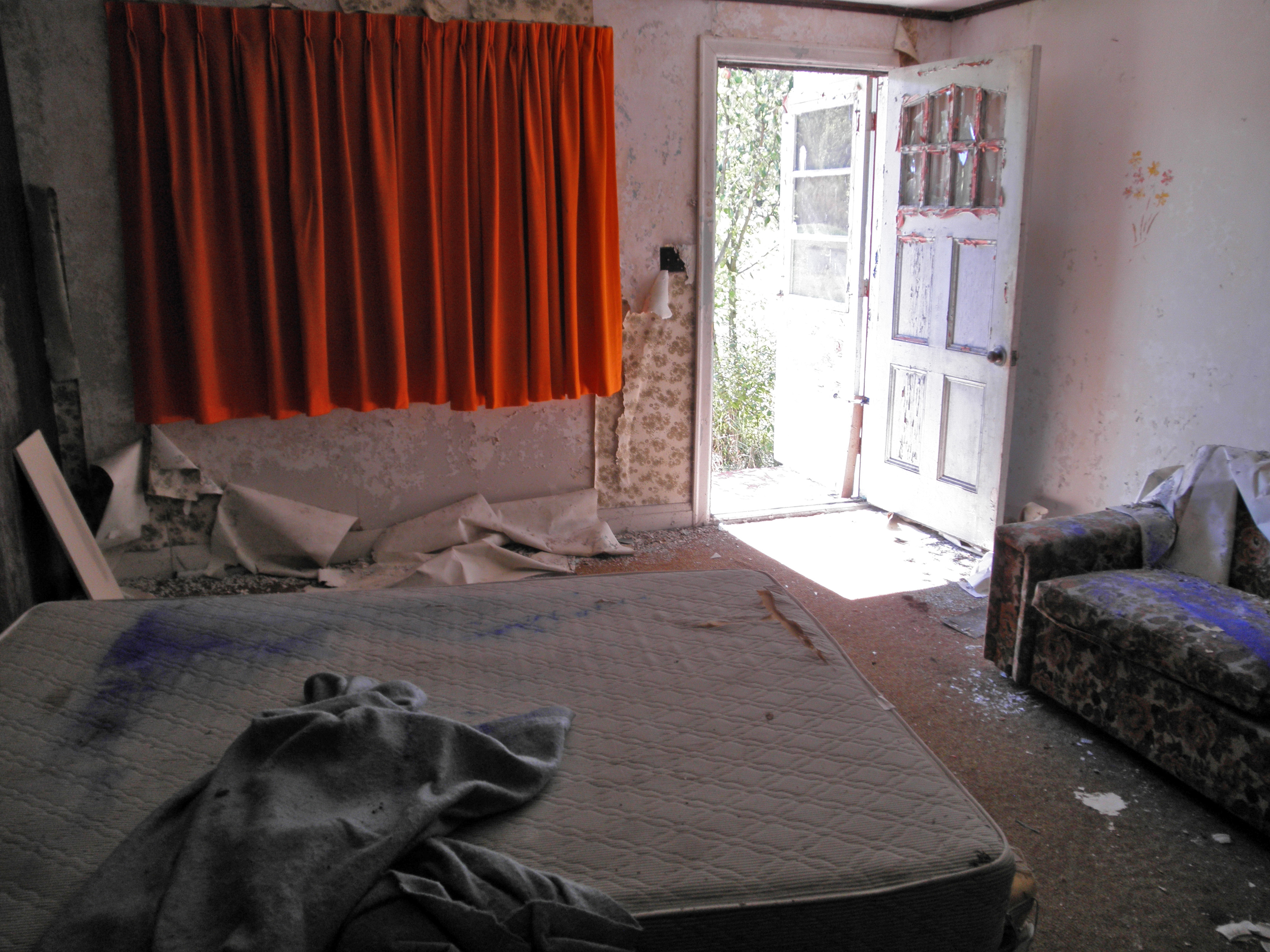 A room in an abandoned motel at 3206 Ontario Highway 2 in Pittsburgh Township, Ontario.